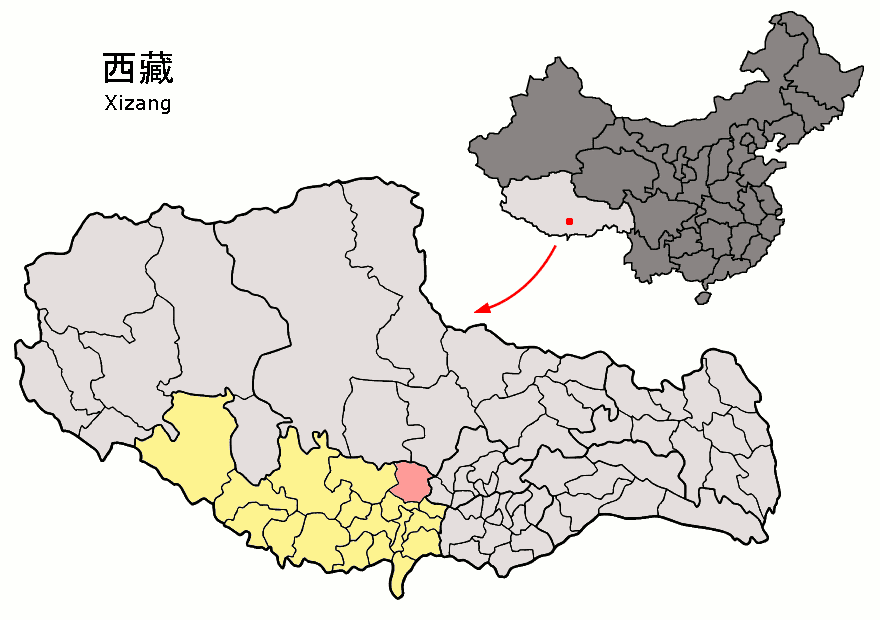 Location of Namling County (pink) and Xigazê Prefecture (yellow) within Tibet (Xizang) autonomous region of China